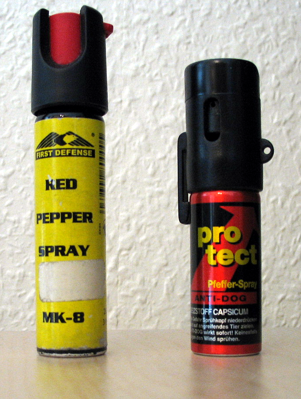 customary pepperspray from germany